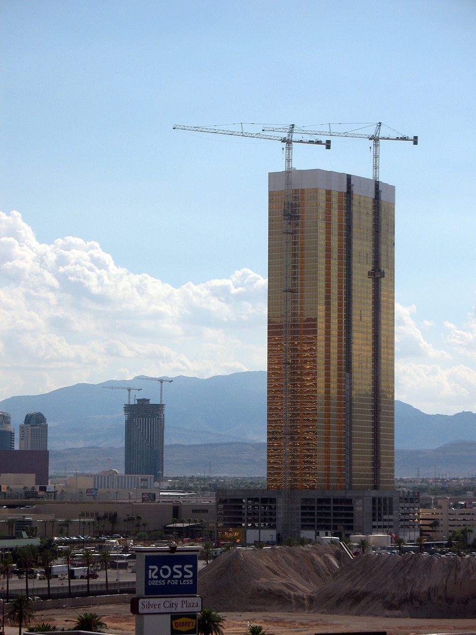 A picture of the Trump Tower taken from the Riviera Hotel and Casino on August 2nd, 2007 showing the progress of the construction.